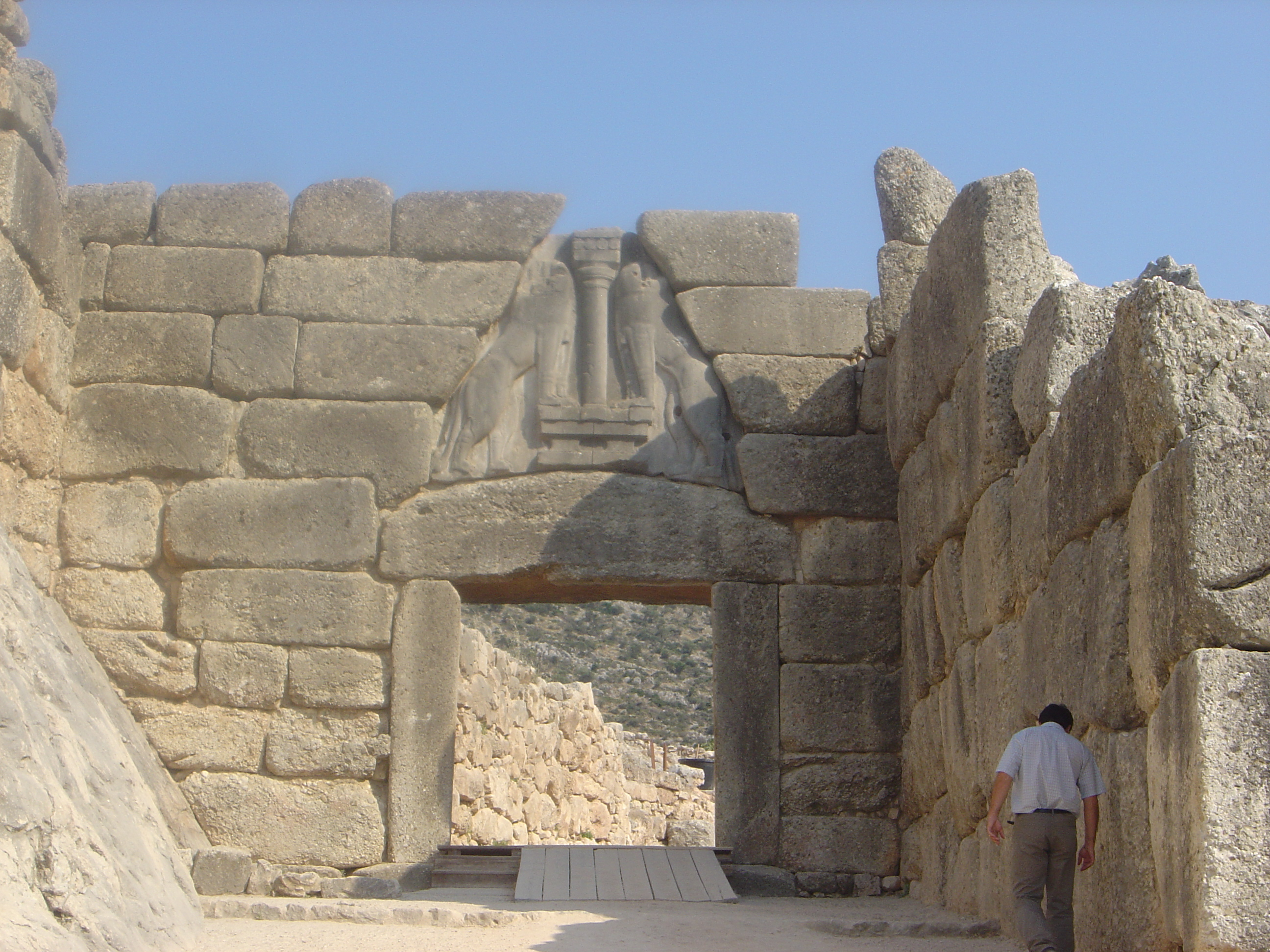 the lion gate at Mycenae (the man gives the scale)